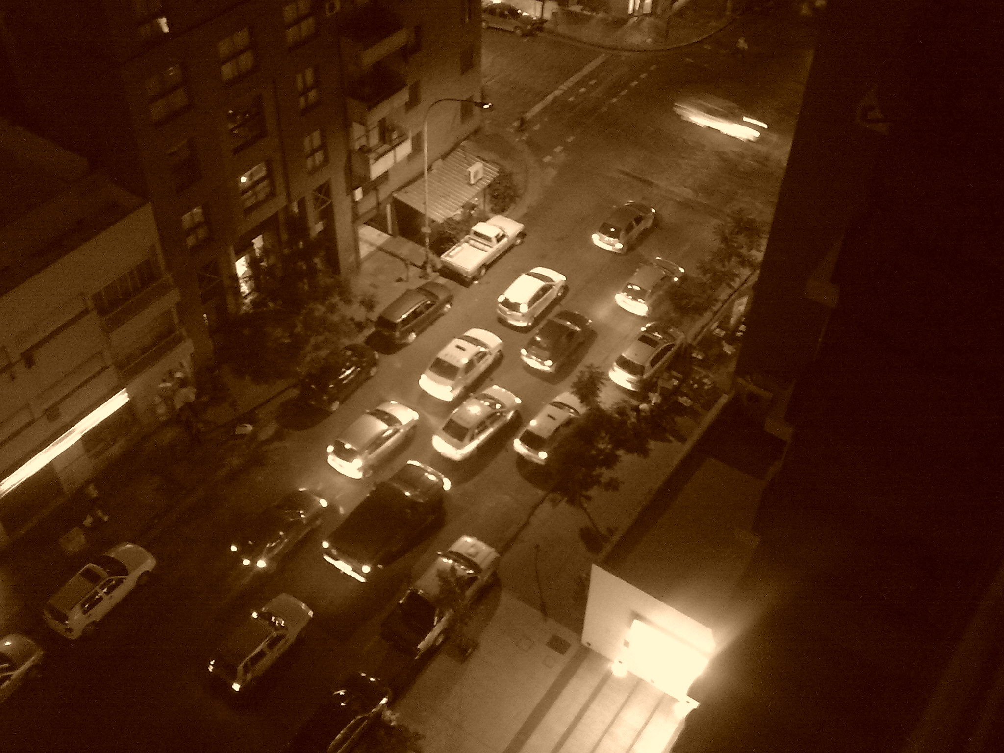 Corner of Rondeau street and Obispo Salguero street, taken from the 11th floor. Cordoba, Argentina.